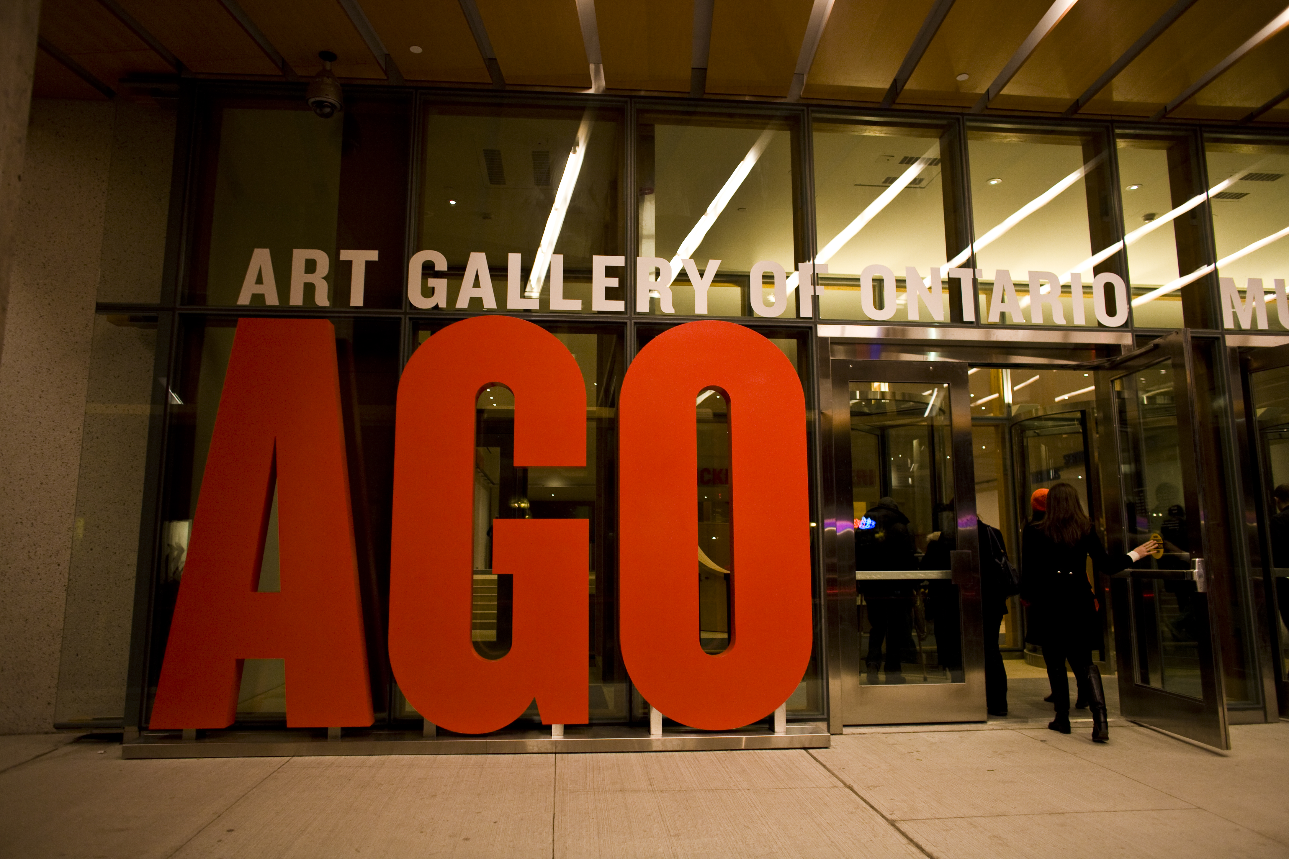 Entrance to the Art Gallery of Ontario, Toronto, Canada.